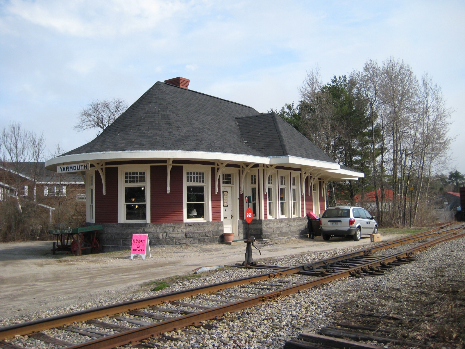 Old Yarmouth railway station, Yarmouth, Maine